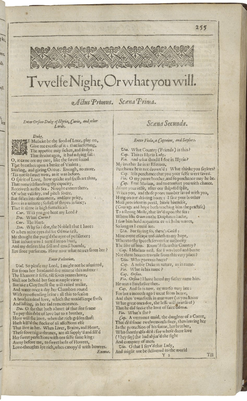 The first page of Shakespeare's Twelfth Night, printed in the First Folio of 1623